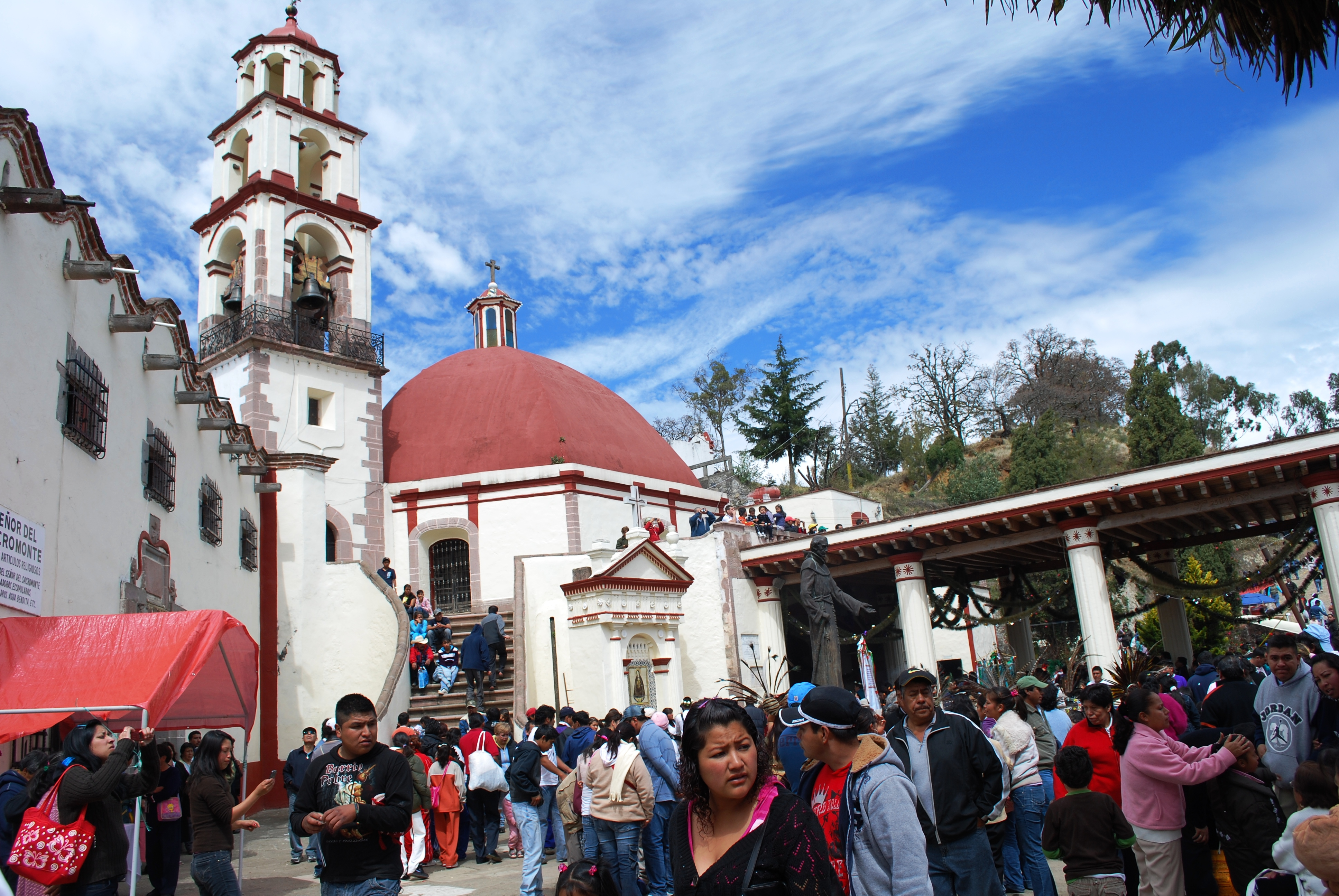 Sanctuary of Sacromonte during the Festival of Sacromonte in Amecameca, Mexico State